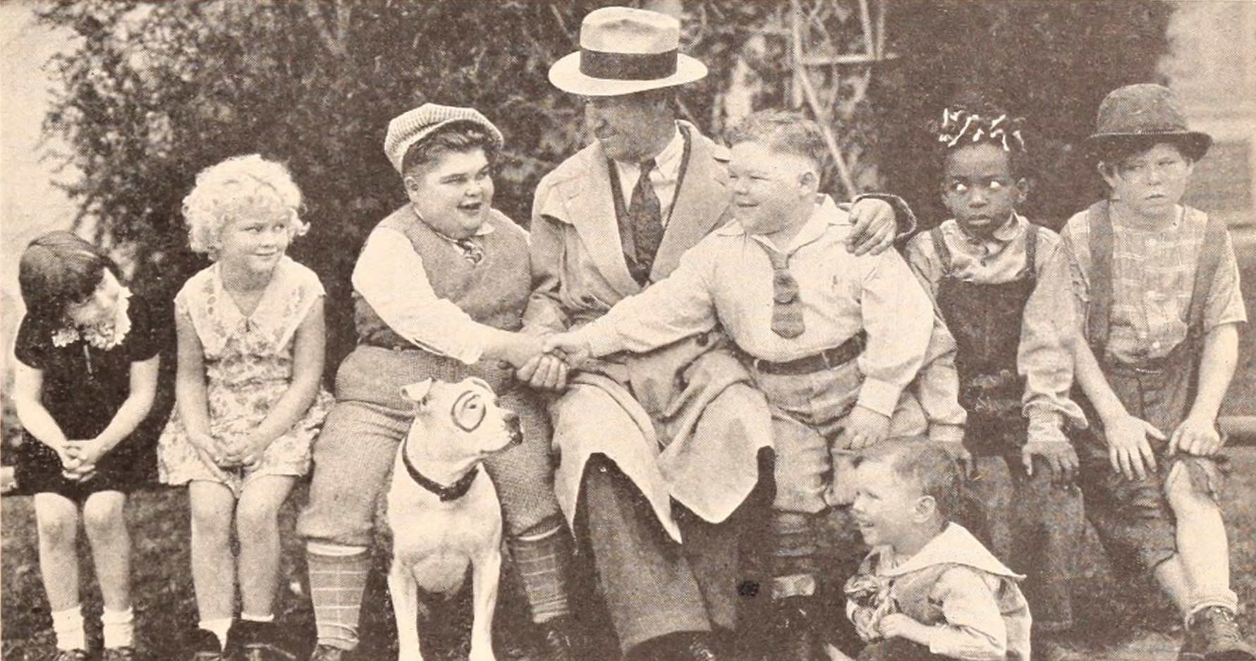 Motion Picture News, July 6, 1929